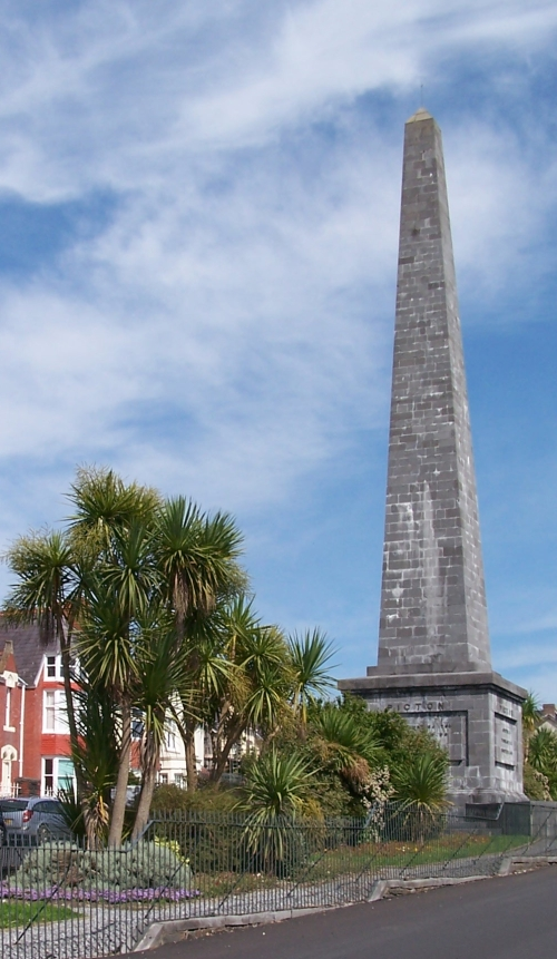 Sir Thomas Picton Monument at Carmarthen by Darren Wyn Rees at Aberdare Blog